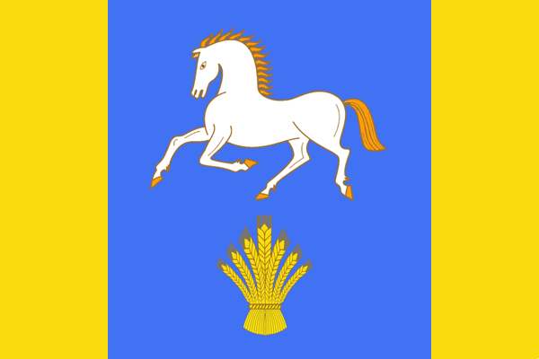 Ilishevo rayon (Bashkortostan), flag